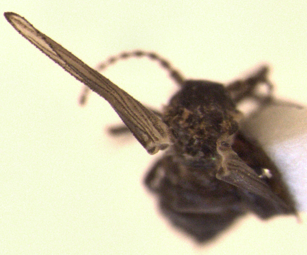 adult female Psychoda acutipennis, length about 2 mm